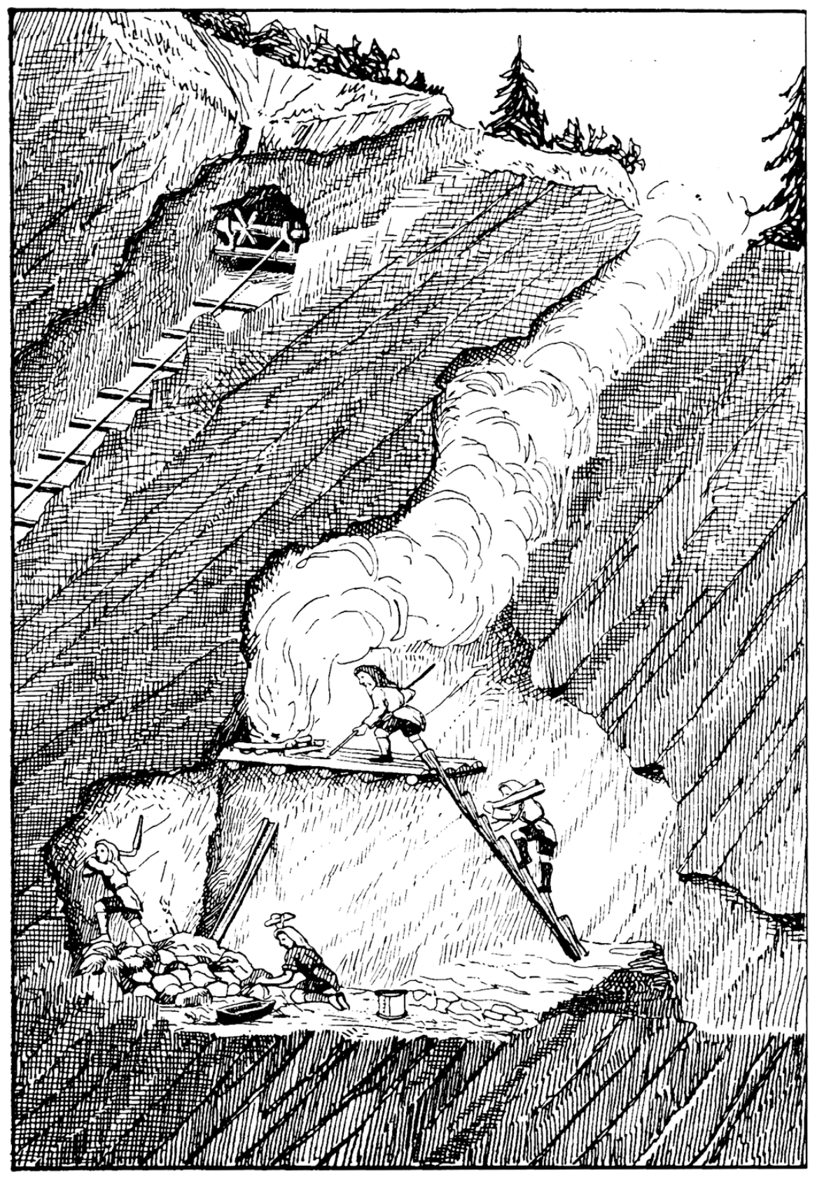 Firesetting of ore used at Mitterberg, in Austria. Drawing, by Olivier Klose, of a mining during the Renaissance.